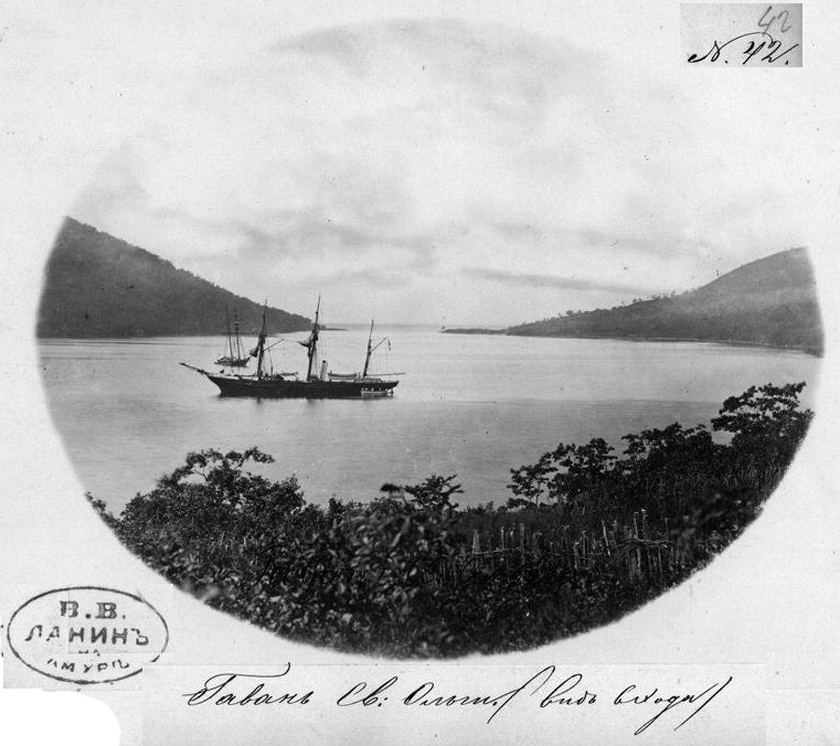 Olga bay 1870